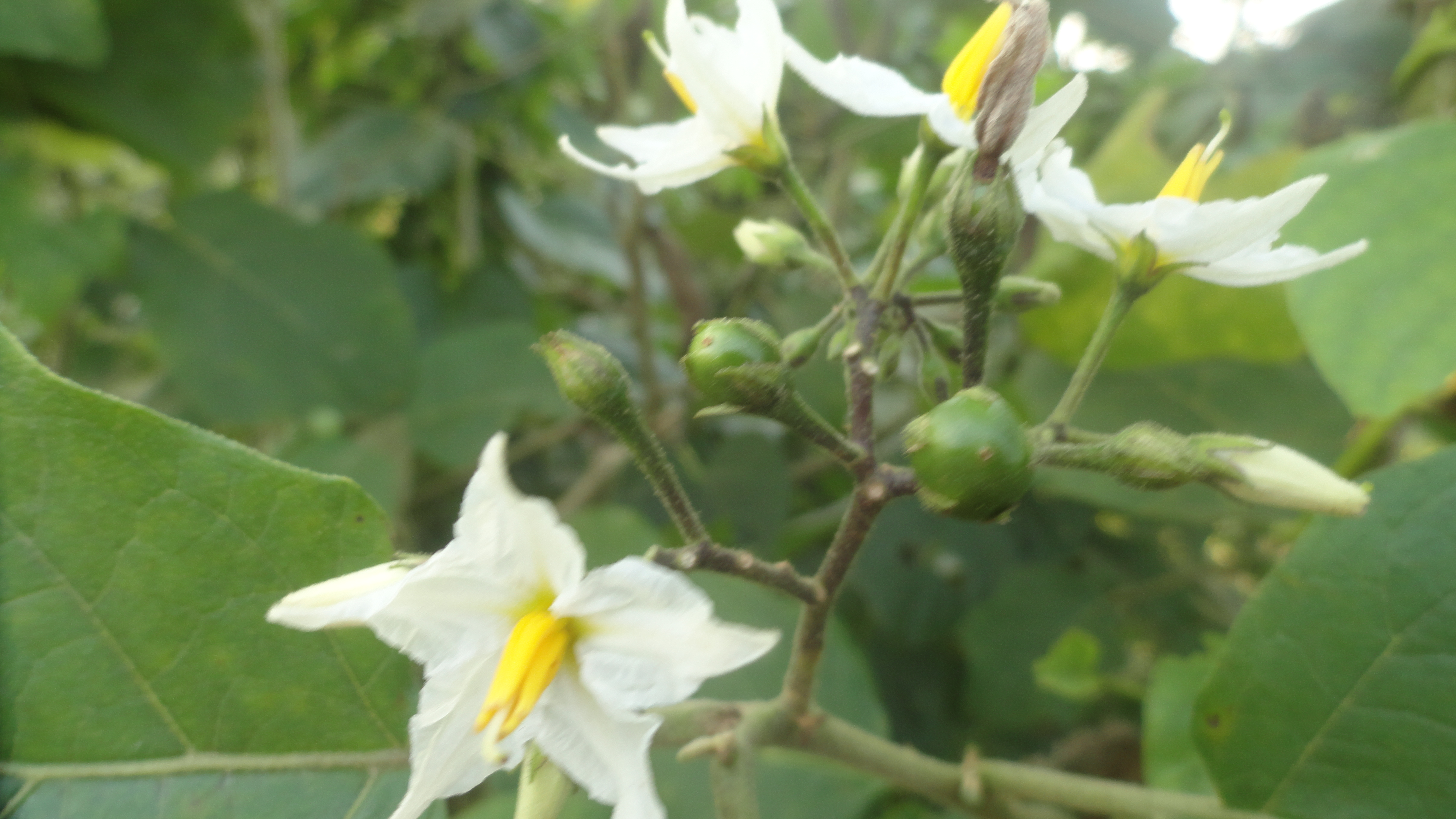 Usti kaayalu (Telugu) one Type of vegetable.Near kalluru of CTR Dist a.p.